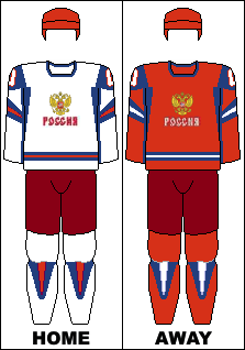 The home and away jerseys of the Russian national ice hockey team with the Russian coat of arms in the middle.